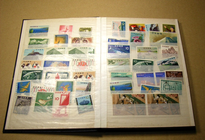 A stockbook of various Japanese stampsmy stamp collection book opened